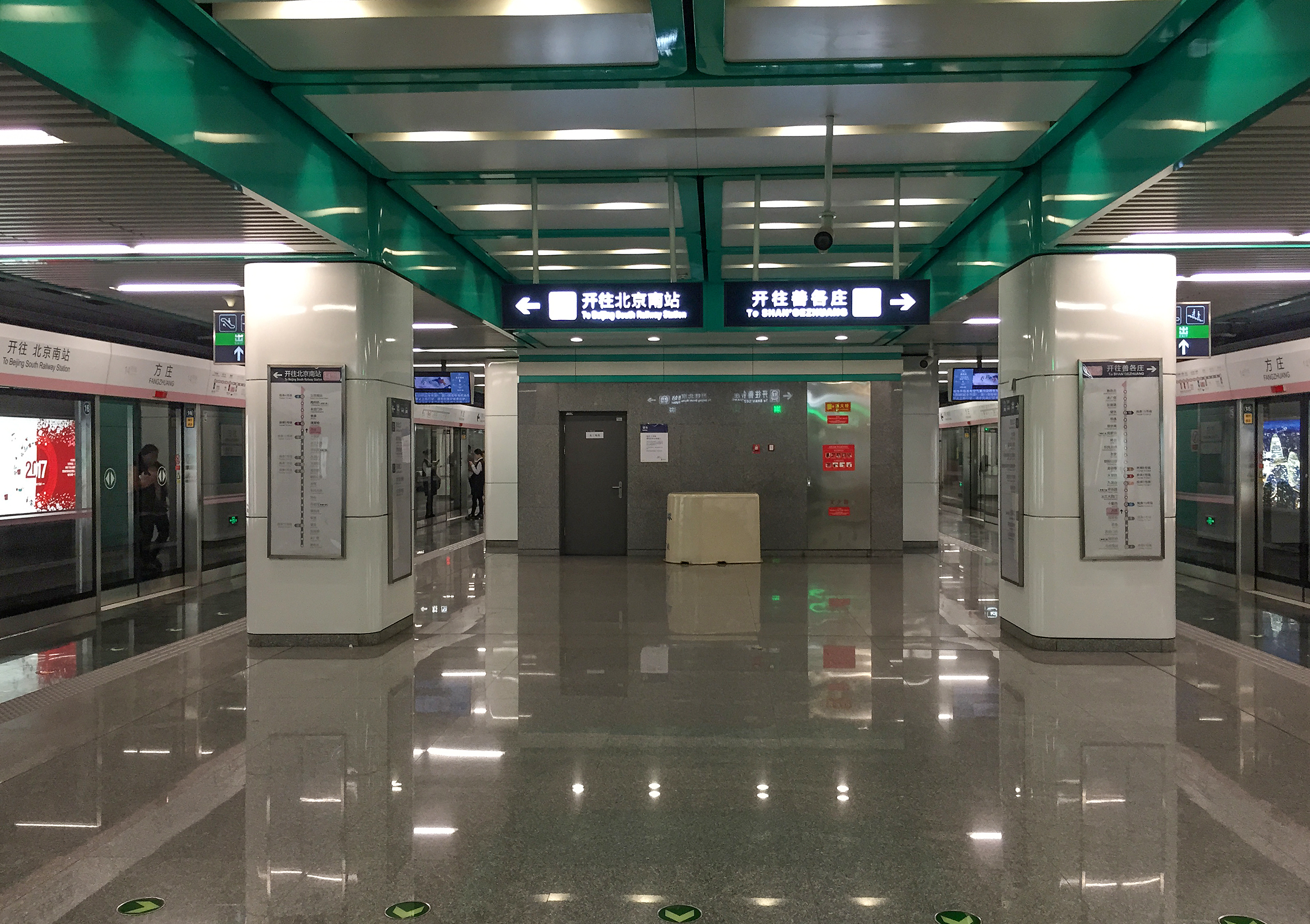 This green resembles Line 8.